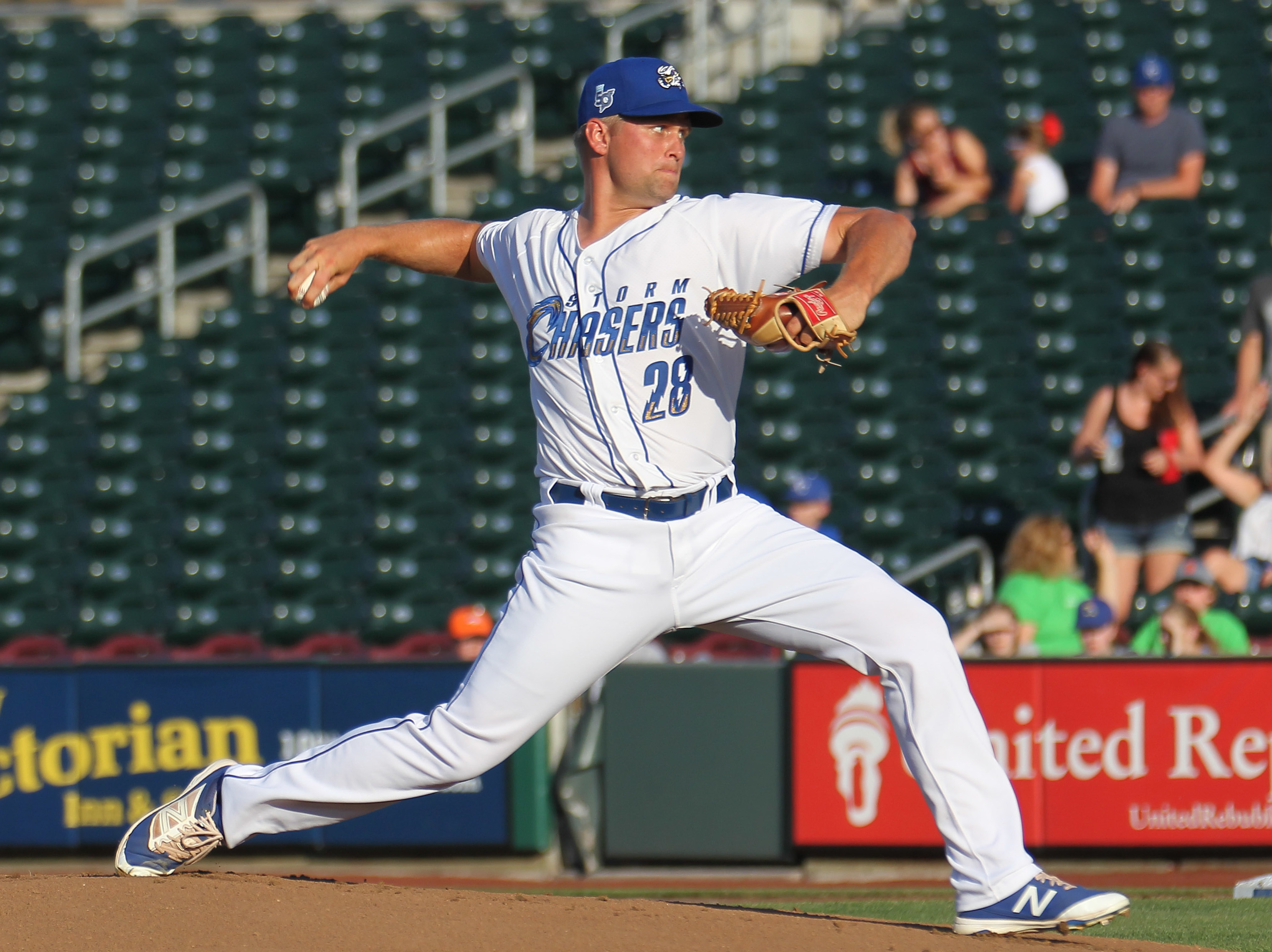 Glenn Sparkman of the Omaha Storm Chasers delivers a pitch at Werner Park in Omaha in 2018.